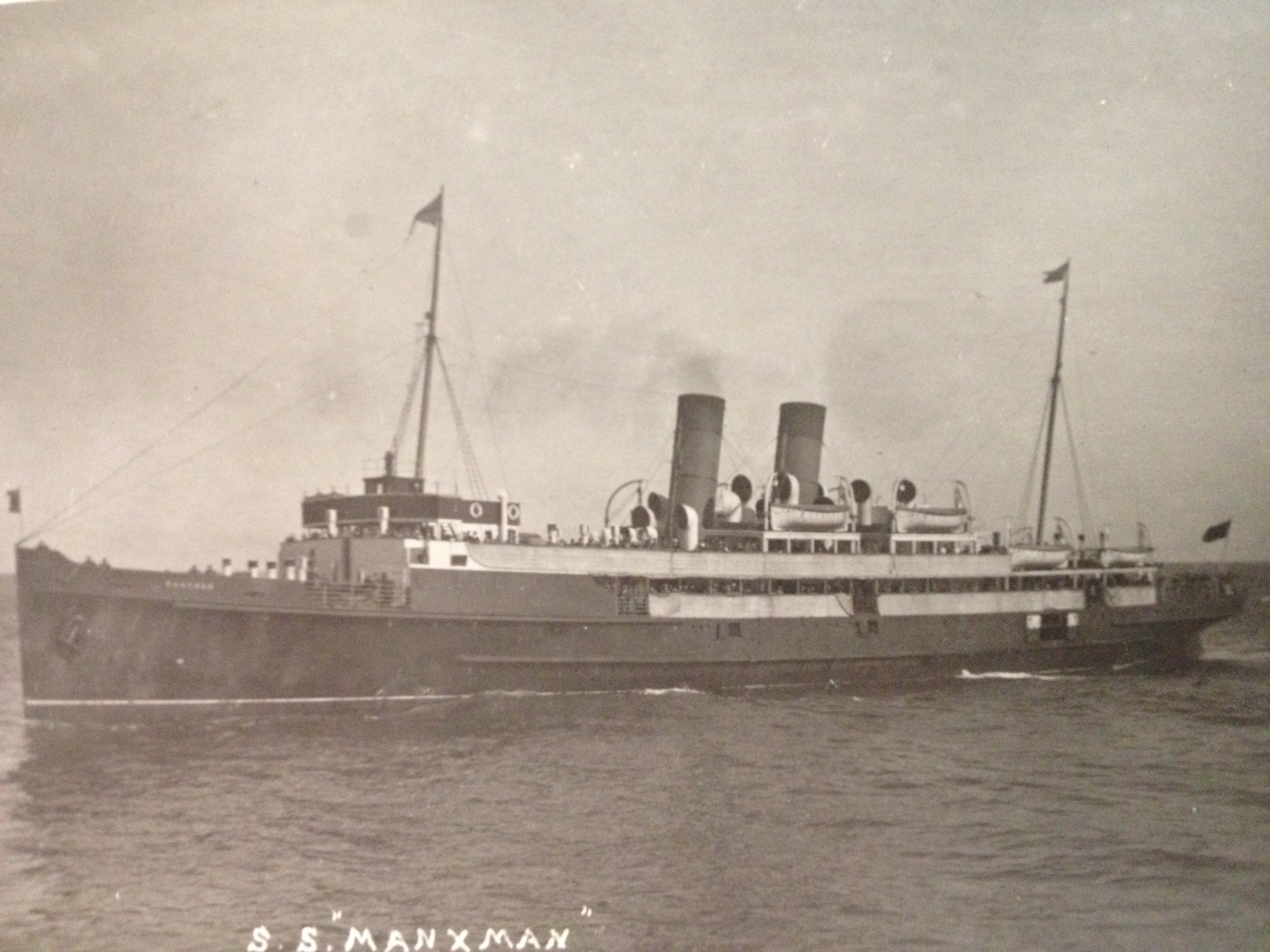 Turbine Steam Ship Manxman, in Isle of Man Steam Packet Company service.